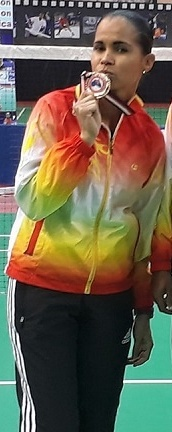 Seychelles’ women's doubles team of Juliette Ah-Wan (left) and Allisen Camille.